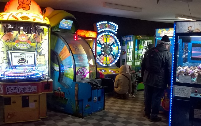 Tivoli Friheden, Aarhus